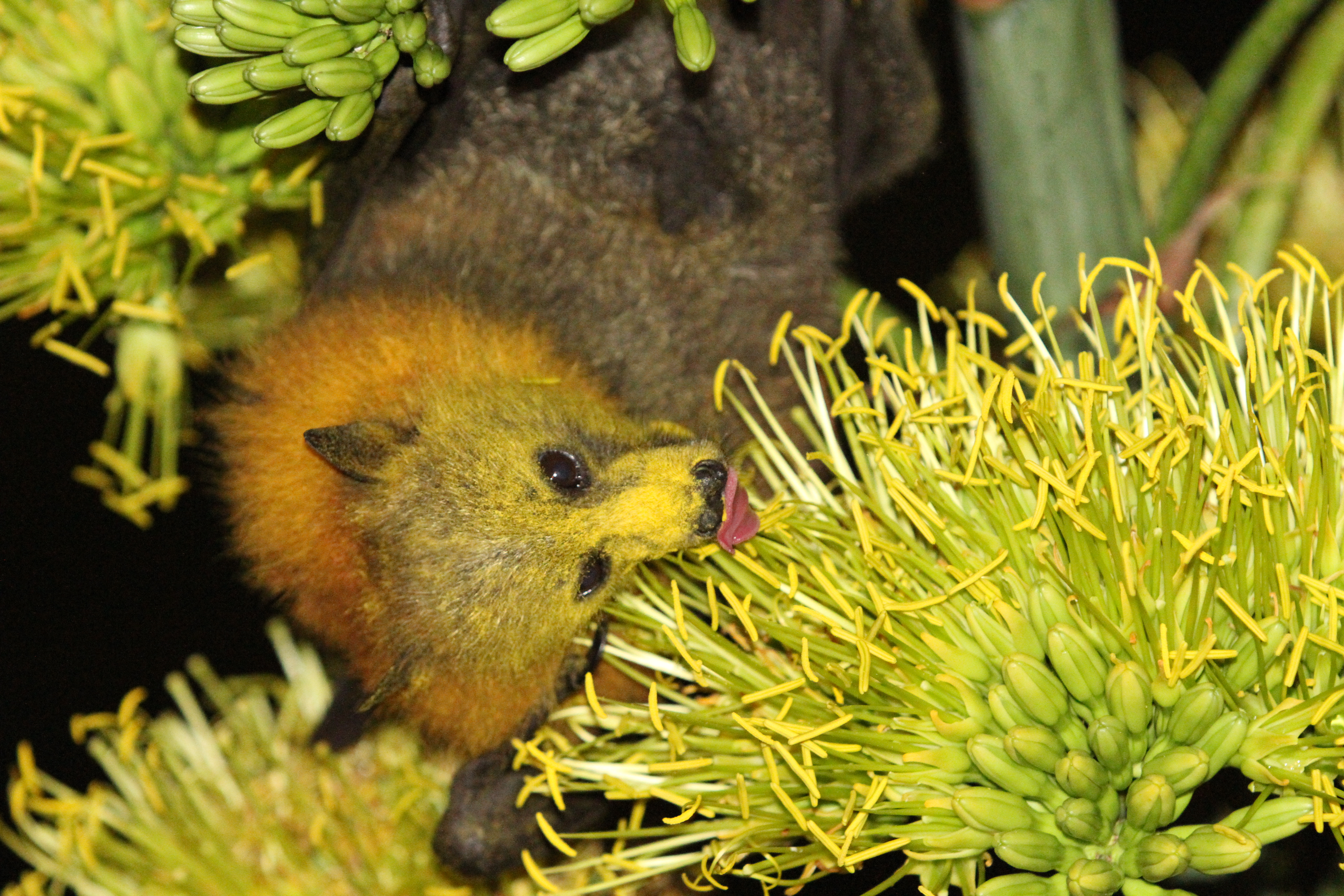 Grey-headed Flying Fox (Pteropus poliocephalus) eating flower nectar. The face and fur of this bat being covered with yellow pollen provides a good visual example of the role that bats have in pollinating Australian trees and bushlands. Brisbane, Queensland, Australia.